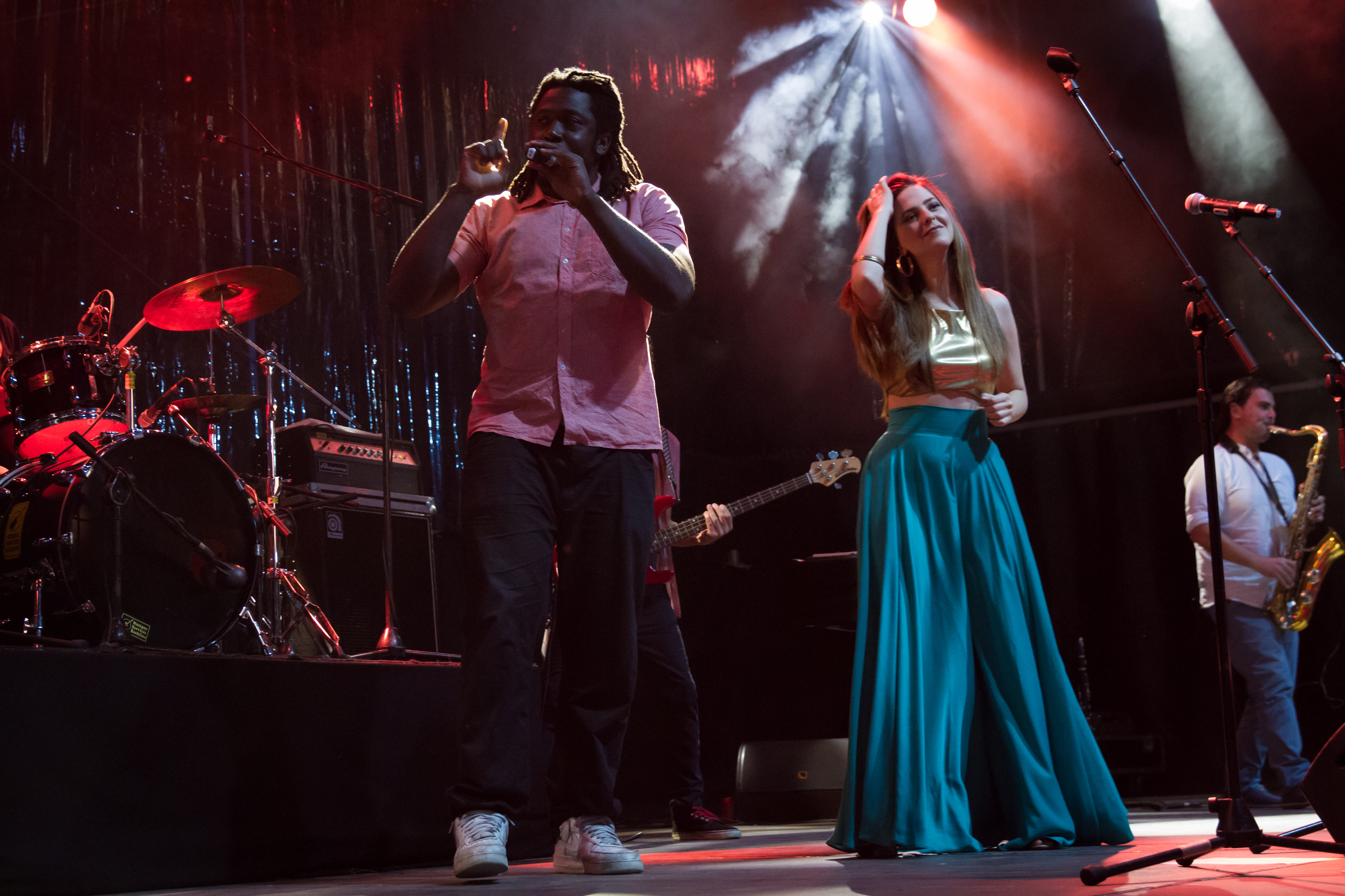 Imam Baildi (Greece) at Rio Loco 2015